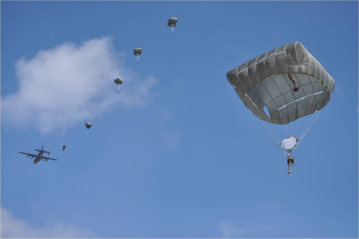 Airborne School students on Fort Benning, Ga., completed the first jump March 16 using the Army's new T-11 parachute, which is replacing the decades old T-10 See more at Fort Benning paratroopers make first jump using T-11